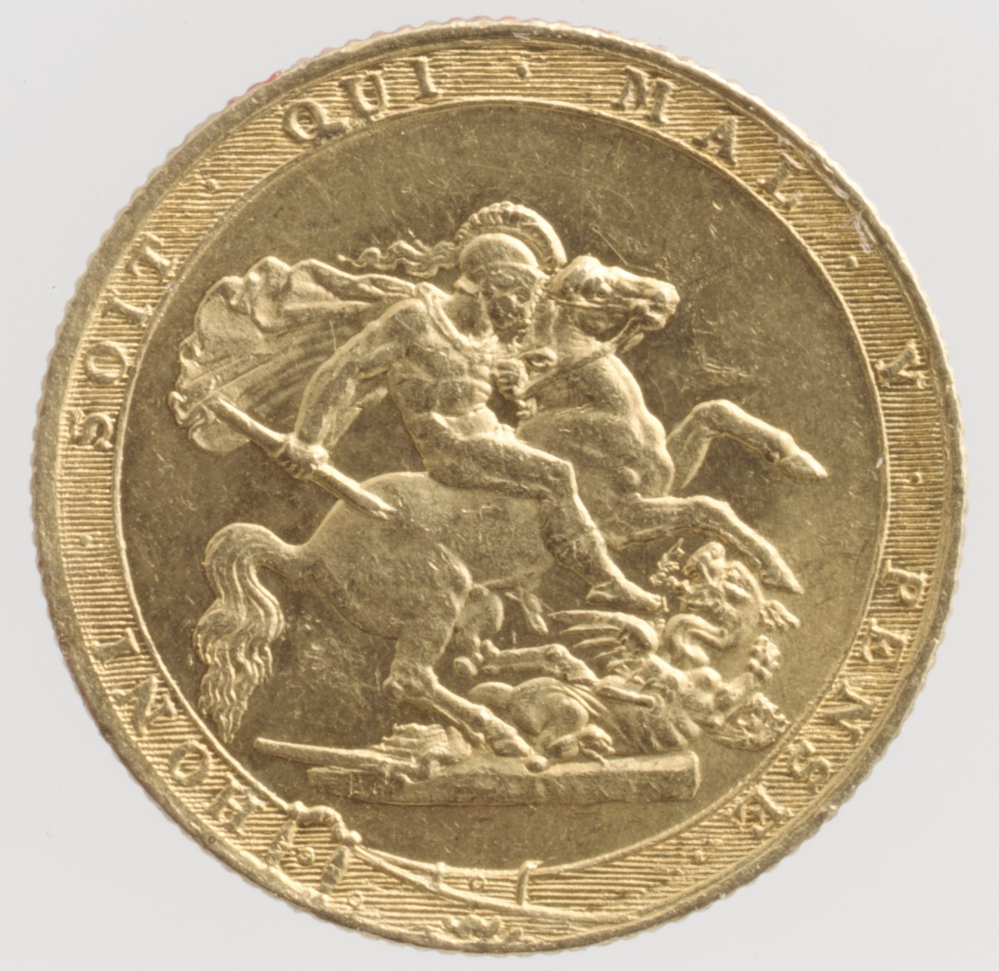 British; Sovereign; Coins